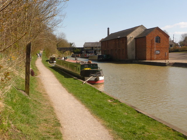 Devizes: canal alongside the wharf Looking across the Kennet & Avon Canal towards 1235955.